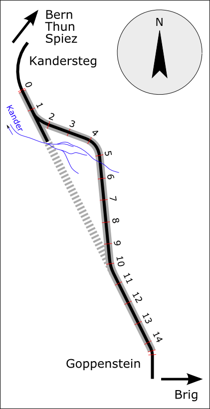 Lötschberg rail Tunnel